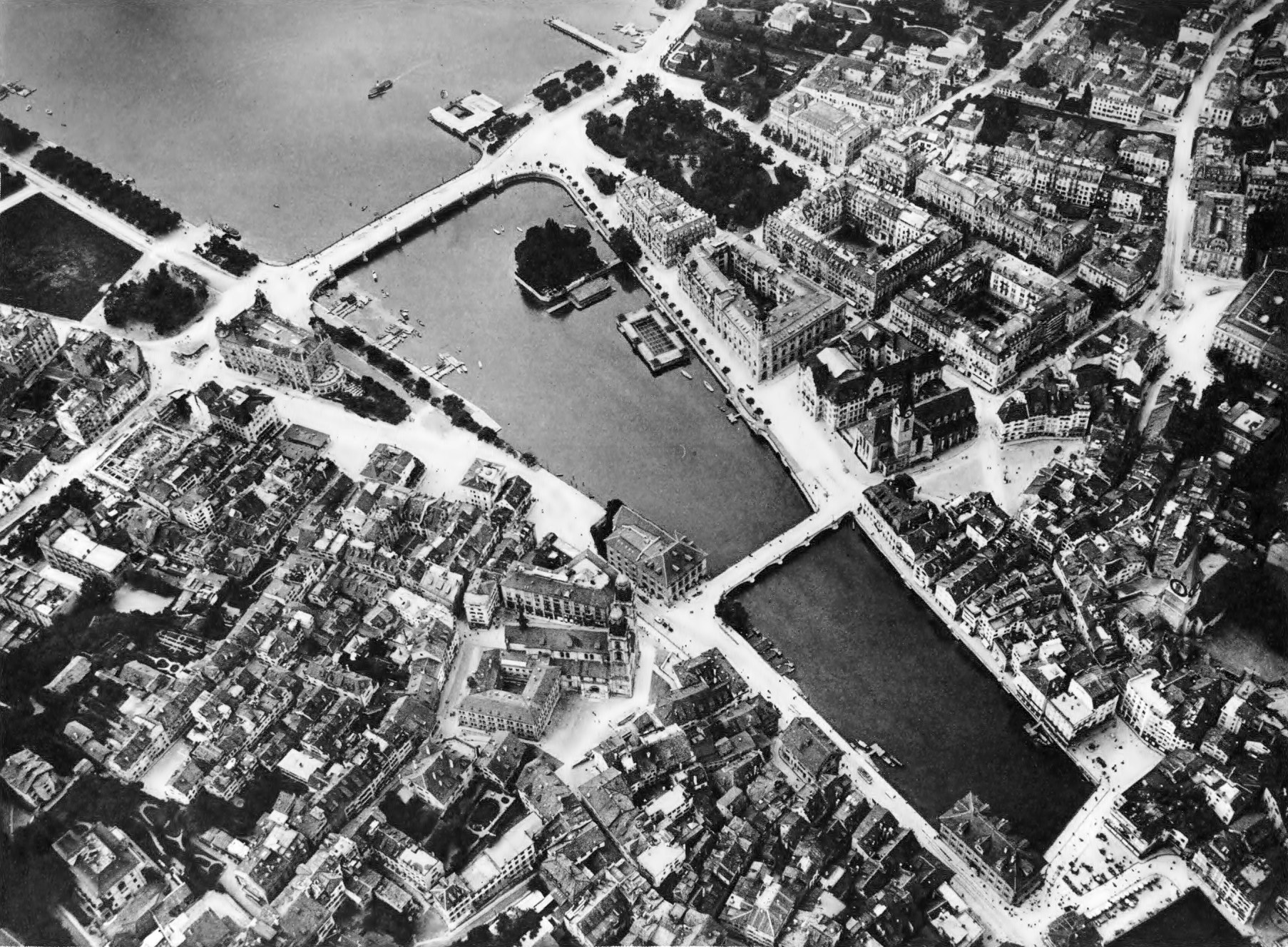 View of the Limmat river and the inner city of Zürich, Switzerland, photographed from a balloon from about 200m above gound. View from north-east towards south-west. Bottom right Rathausbrücke, center below the river (i.e., on the North shore) Grossmünster, opposite Fraumünster; right, one third from the top Paradeplatz, upper left lake Zurich, with Quai bridge and Bürkliplatz (top, i.e. South side) and Bellevue.